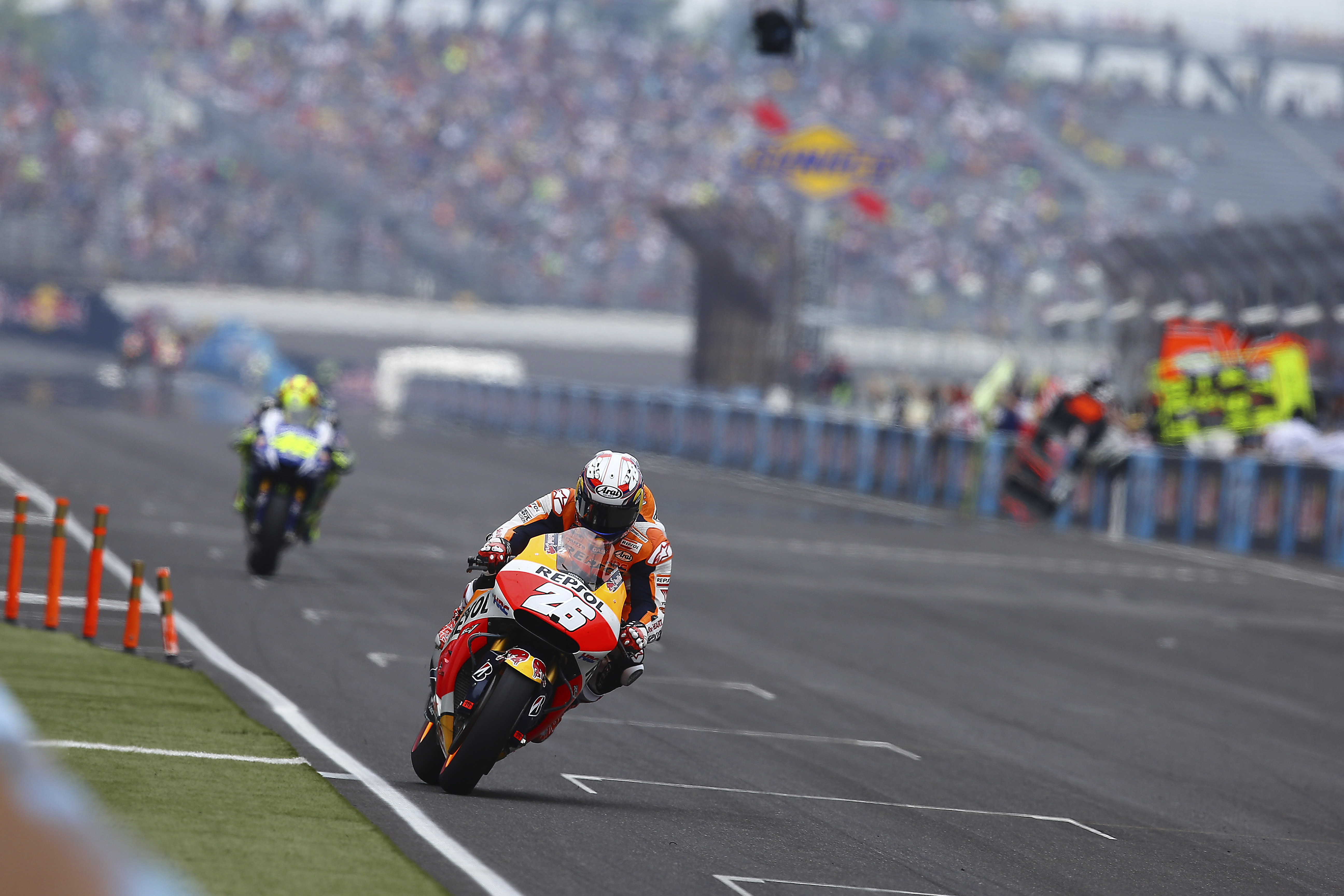 Dani Pedrosa, riding his Repsol Honda, being followed by the Movistar Yamaha of Valentino Rossi at the 2015 Indianapolis Grand Prix.